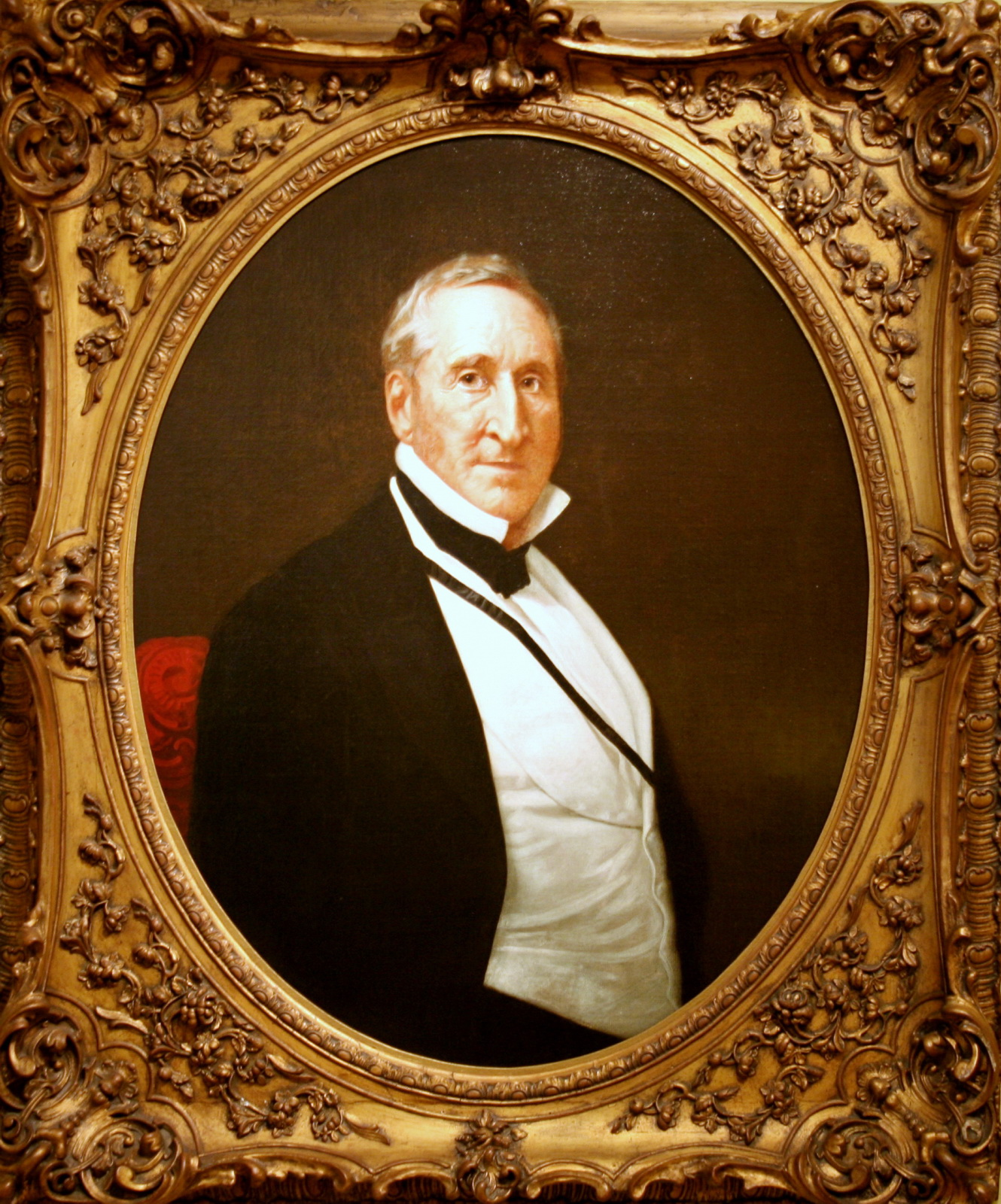 Portrait of Senator Thomas Hart Benton